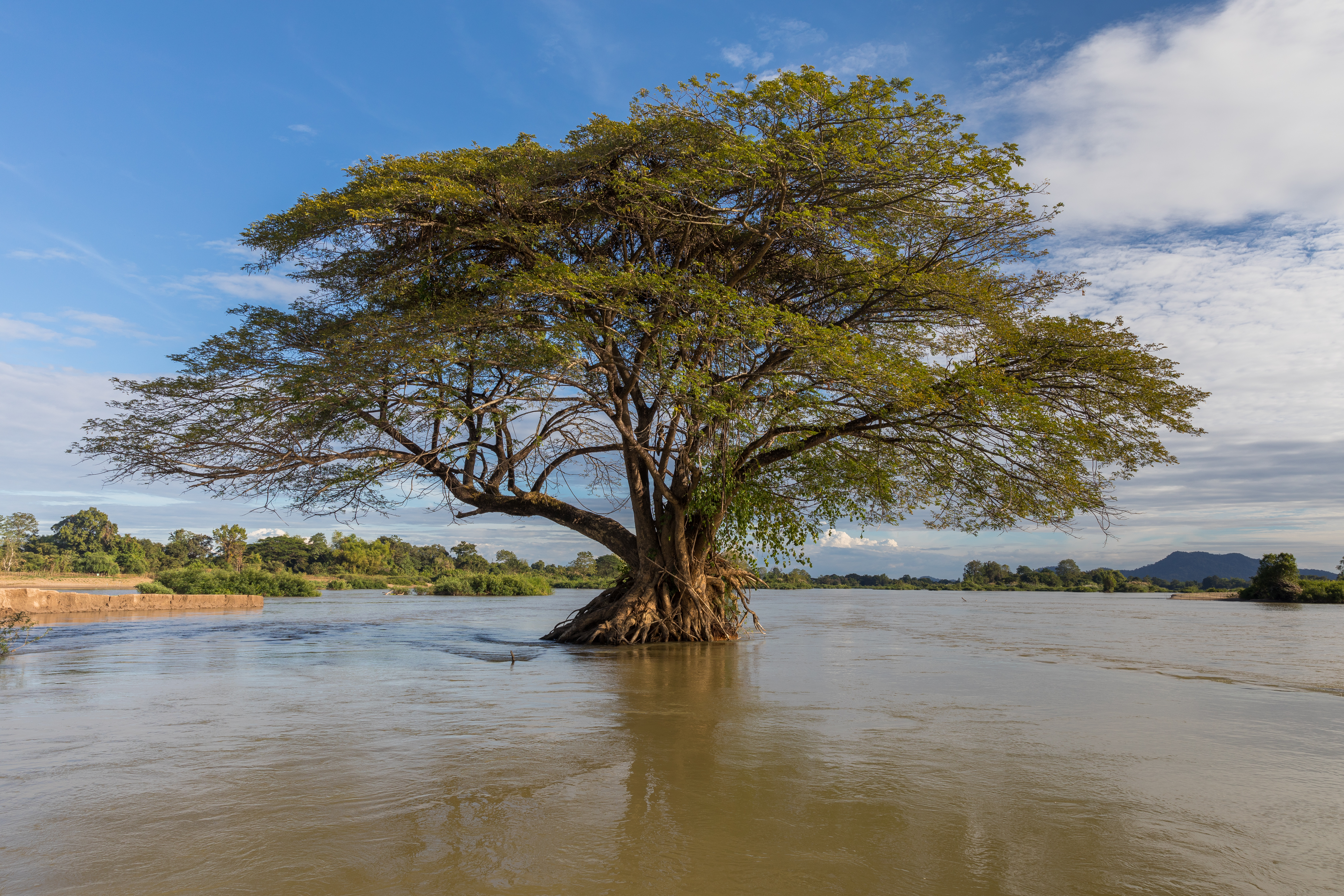 Submerged Samanea saman (Albizia saman or rain tree) in the Mekong, near the island of Don Loppadi, Laos, during the dry season (when the river is low), in the afternoon at 4:00 pm